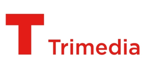 Trimedia